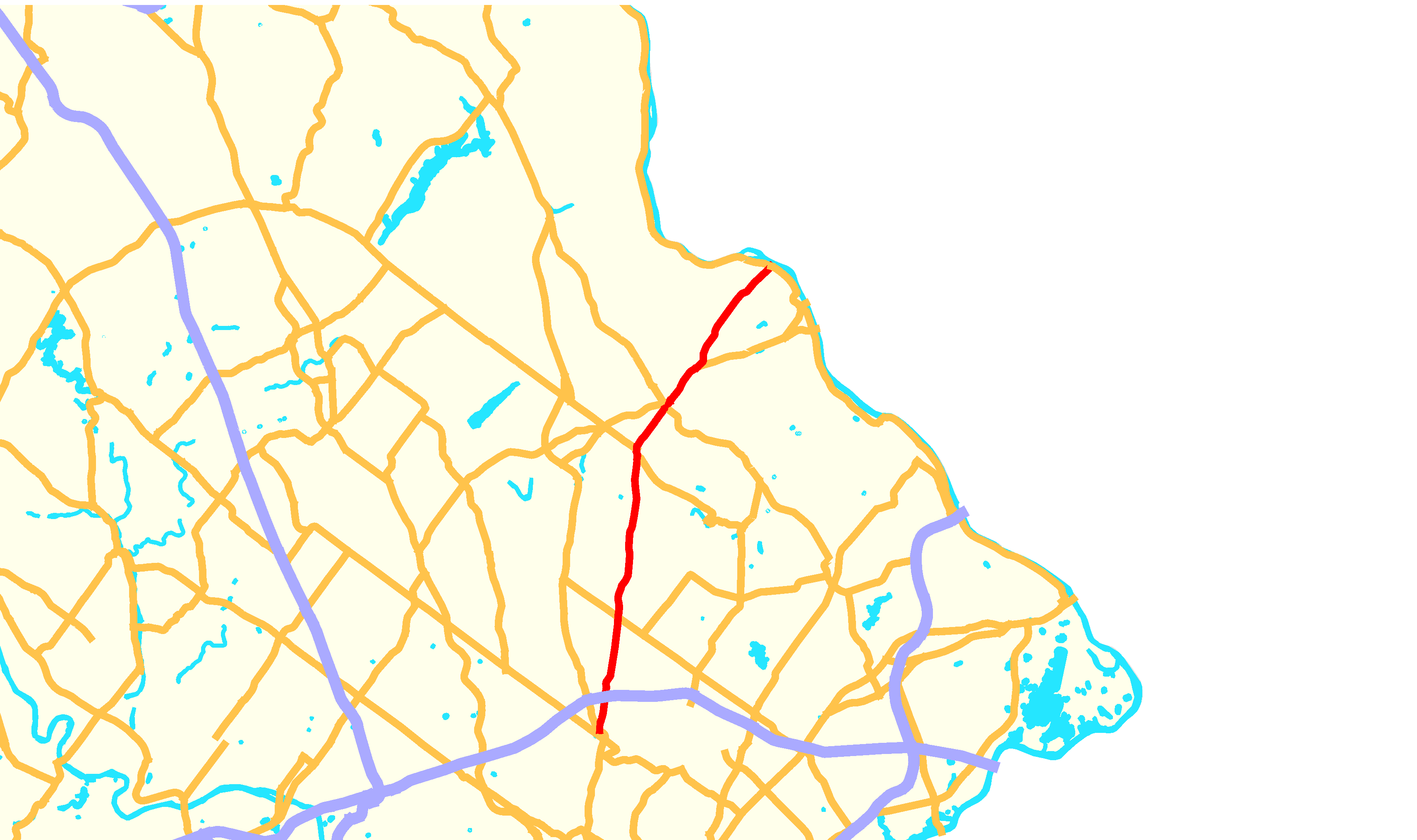 Map of Pennsylvania Route 263